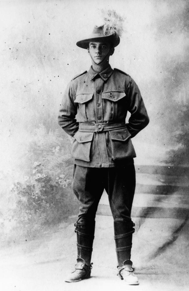 Portrait of William Todd, 1912. Portrait of William Todd, a soldier in the Australian Imperial Forces, wearing full Australian Light Horse military uniform including leather leggings and slouch hat.